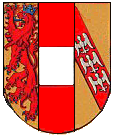 Shield of the coats of the Habsburg-Lorraine family. Right side (in heraldic terms) the coat of arms of Habsburg, in the middle the right-white-red coat of arms of Austria, on the left (in heraldic terms) the coat of arms of Lorraine.